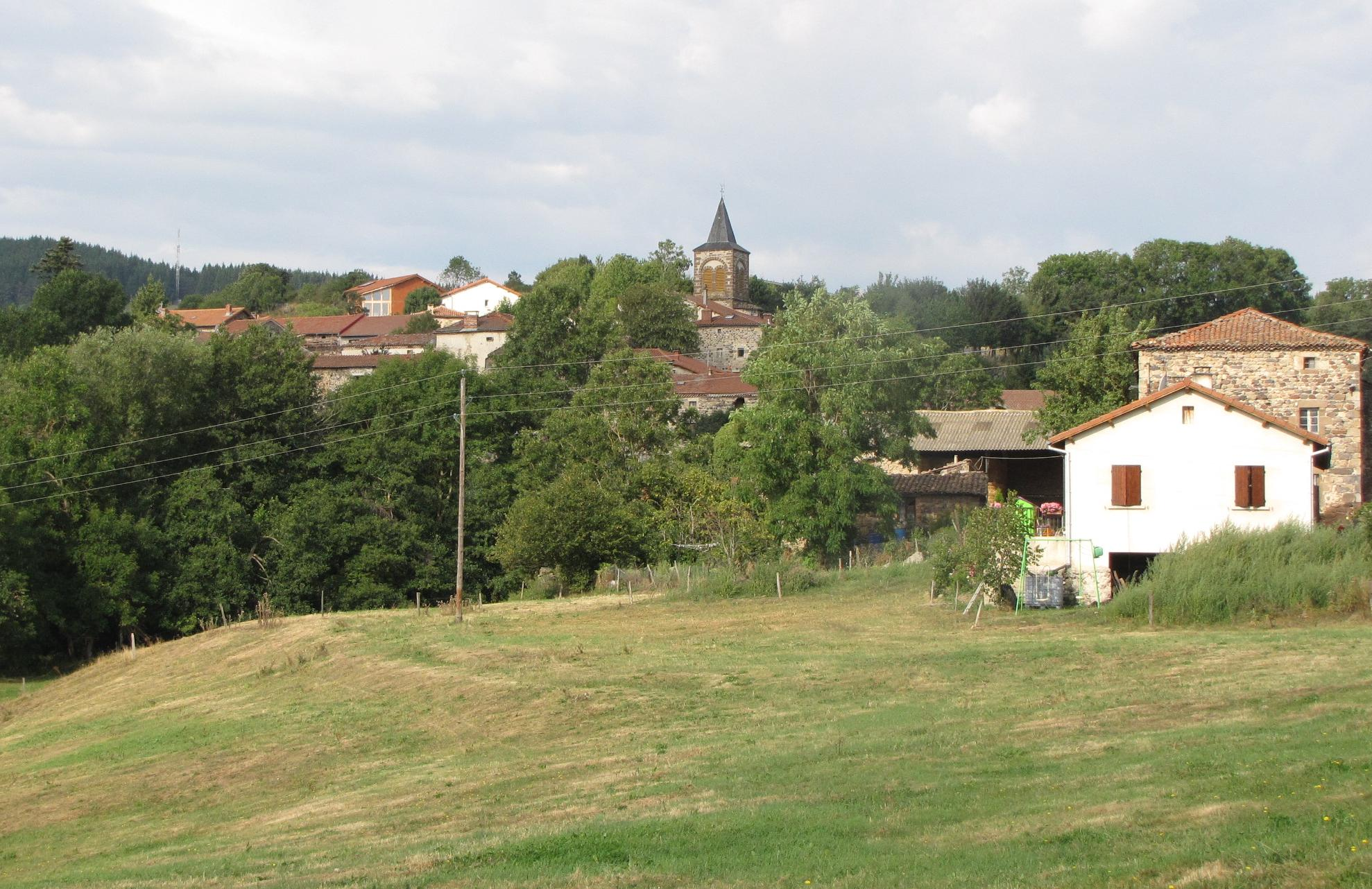 General view of Vazeilles-Limandre August 2009